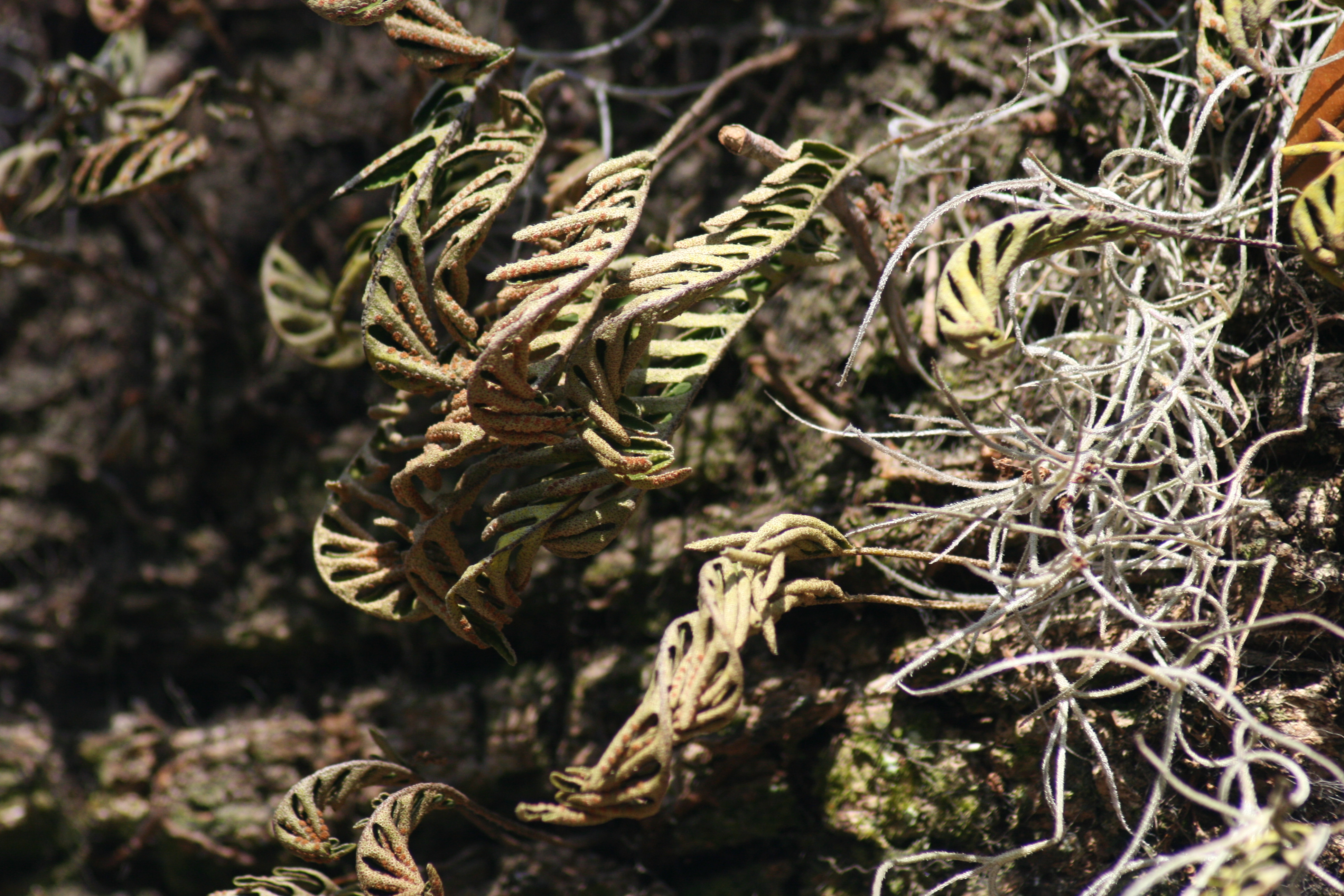 Pleopeltis polypodioides — Resurrection fern, in dry state. On Cumberland Island at the Cumberland Island National Seashore, Georgia.